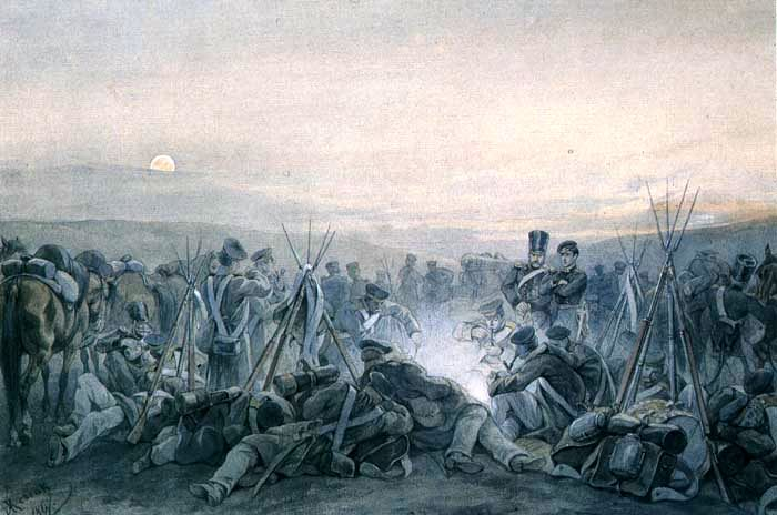 Polish army on bivouac 1831